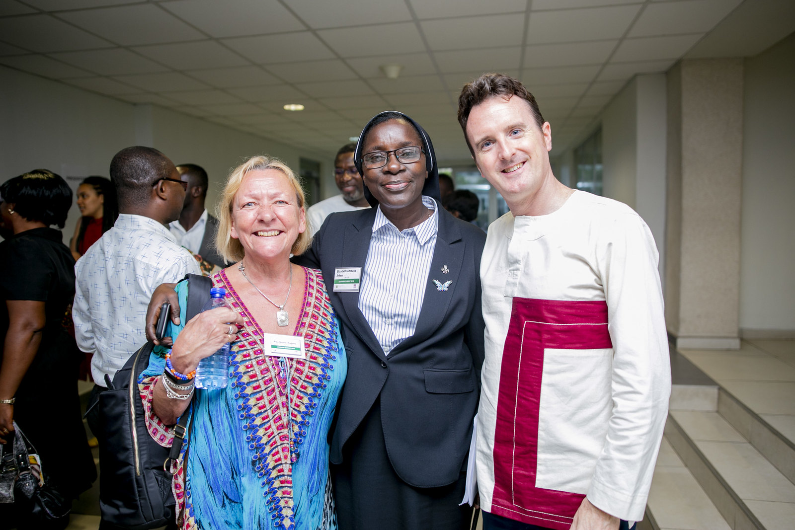 14th Principal of Accra College of Education, Rev. Sr. Elizabeth Amoako Arhen (Middle) at the 2nd National Teacher Education Learning Summit